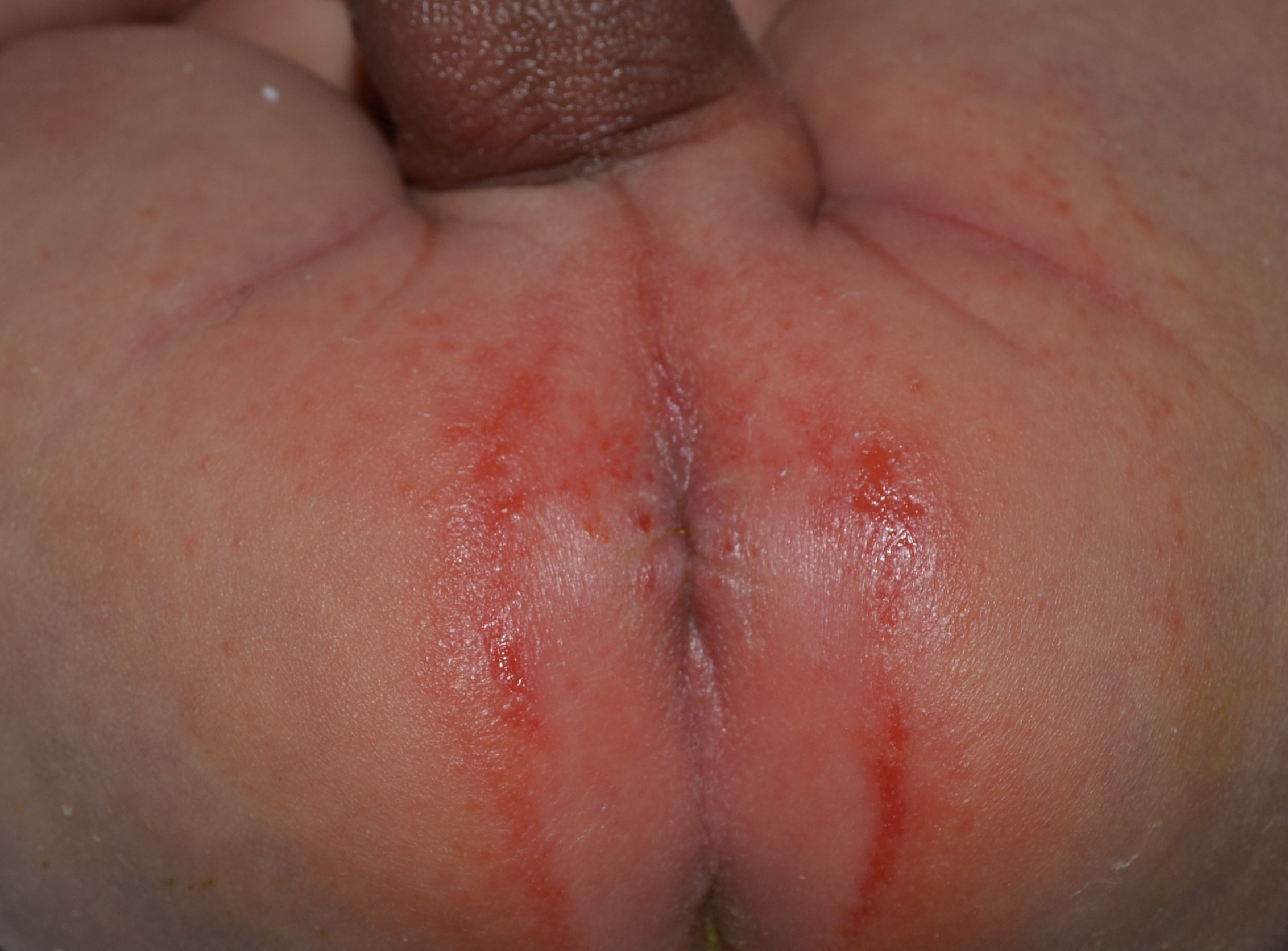 Mild benign diaper rash in breast-fed, cloth-diapered male infant aged 3 weeks.